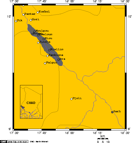 Based on Boyeldieu 1985. Depicts the areas where the Niellim language is spoken.